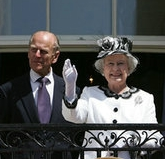 Queen Elizabeth II and Prince Philipp wave to the audience on the South Lawn of the White House